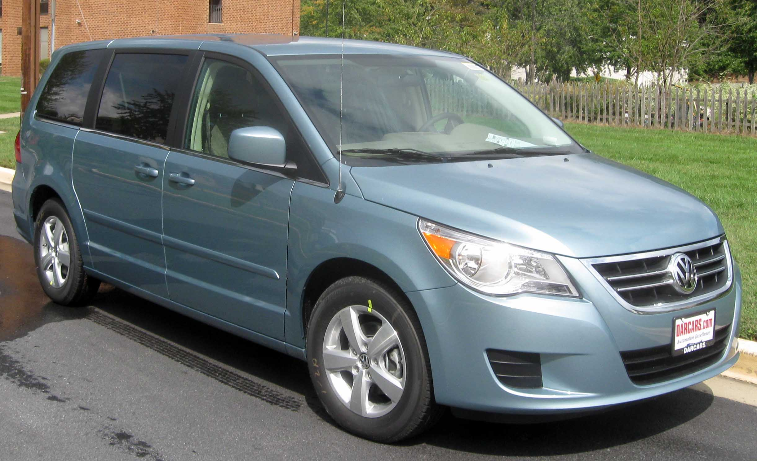 2009 Volkswagen Routan photographed in College Park, Maryland, USA.